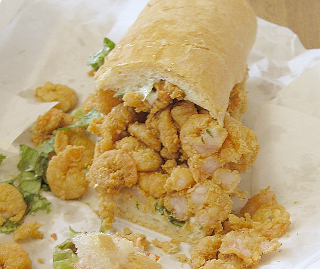 Shrimp Po Boy from Crabby Jack's Rastaurant in New Orleans, Louisiana. Photo Courtesy of Jason Perlow